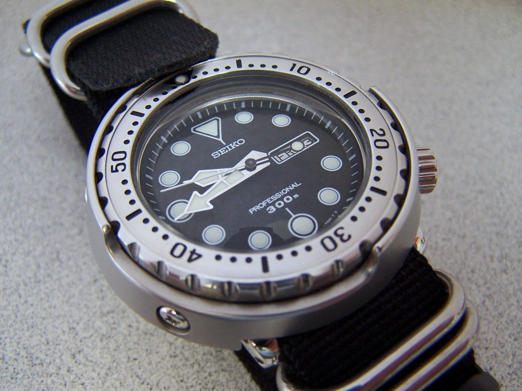 Seiko SBBN007 Professional Diver's 300 m (helium safe/for mixed-gas rated tool watch suitable for professional saturation diving) on a 4-ring NATO style aftermarket strap made of ballistic nylon.